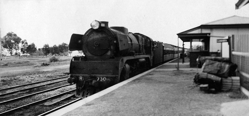 Photograph of Victorian Railways R class locomotive R 730 at Parwan, Victoria in 1953.